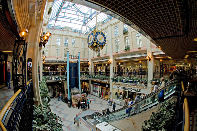 The Galleries, Wigan Escalator and clock area